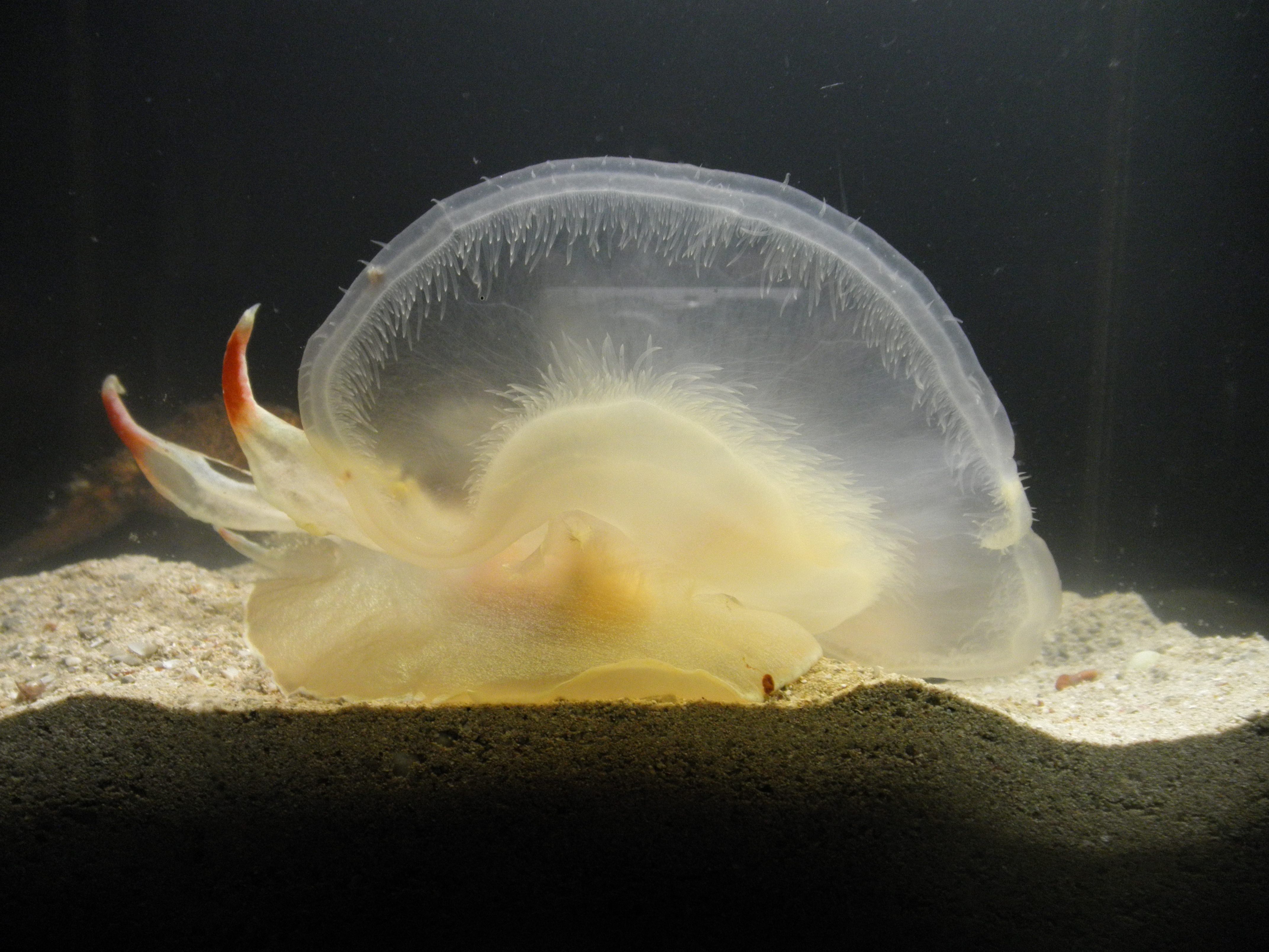 Photo of oral velum of Tethys fimbria from the ventral side. Photo taken in aquarium. Locality: Pelješac, Croatia.